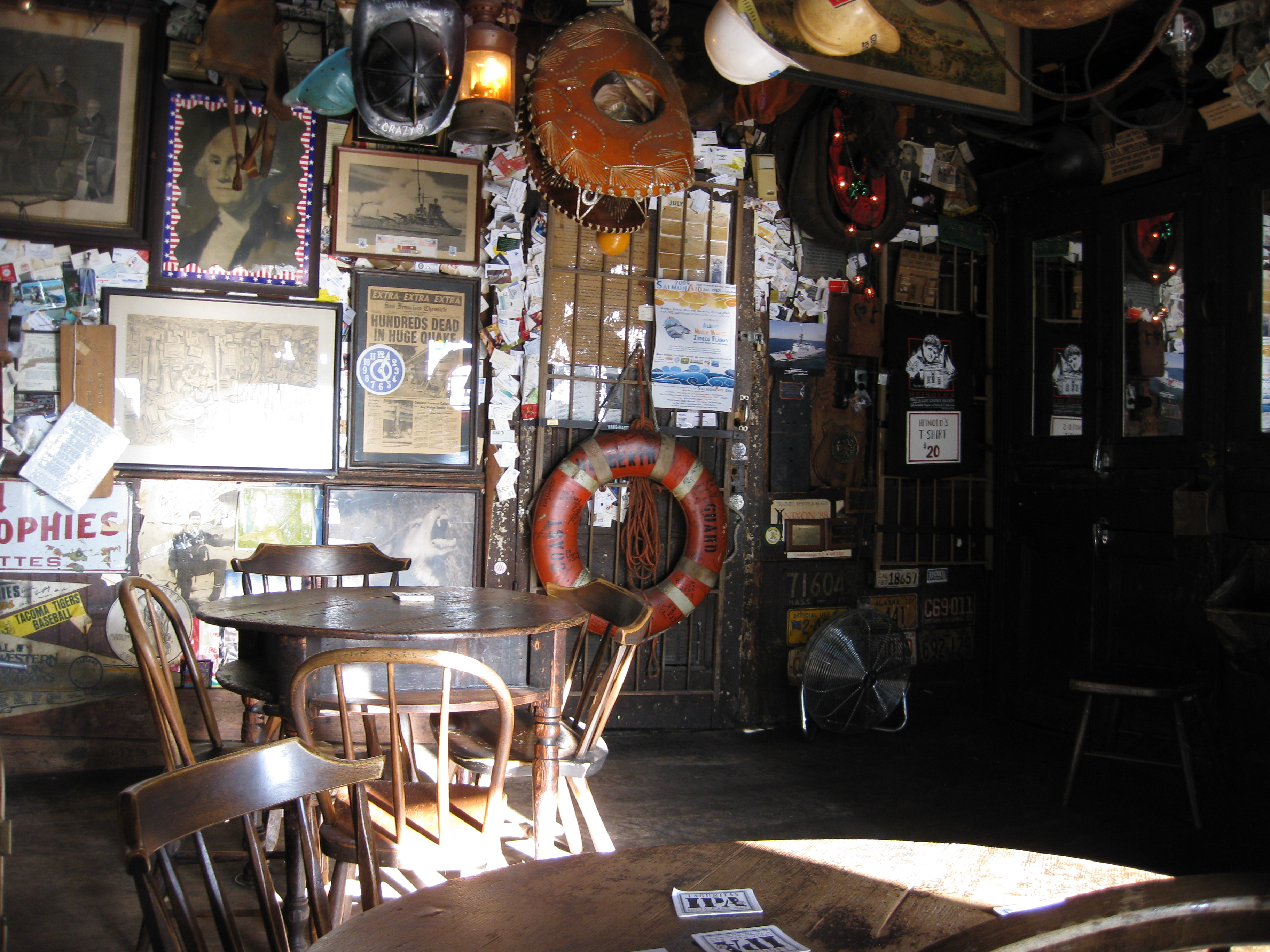 The interior of Heinold's First and Last Chance in Oakland, California.